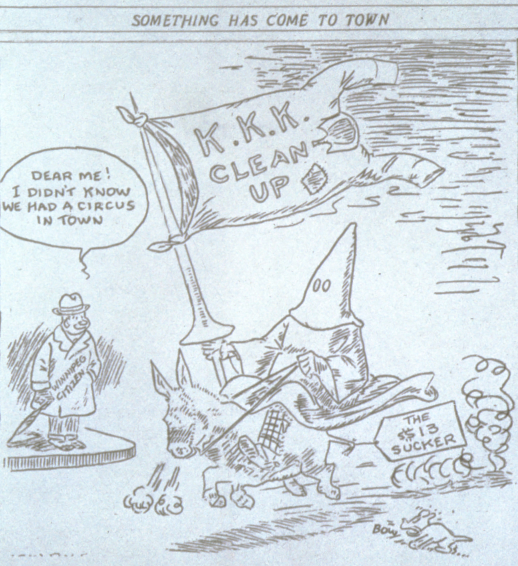 Image of a cartoon entitled "Something has come to town" with a man standing on a curb wearing a sash reading "Winnipeg Citizen" saying "Dear me! I didn't know we had a circus in town" while watching a hooded and robed man on a donkey carrying a flag made out of a patched shirt with "K.K.K. Clean Up" written on it and a sign tied to the donkeys tail reading "The S$ 13 Sucker" with a dog barking in foreground- "During this period of Klan popularity in Saskatchewan, ambitious Klan organizers attempted to expand beyond the provincial border into Manitoba. However Klan activities in Winnipeg met with almost universal opposition from all sections of the population. The Klan failed to establish even a toe hold in the city. Furthermore, an attempt to hold a Klan meeting in The Pas ended in a vicious riot, and the Klan organizers soon scurried back to Saskatchewan. - Political cartoon satirizing the Klan's attempt to organized in Winnipeg. From the Manitoba Free Press, October 25, 1928."